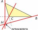 altura